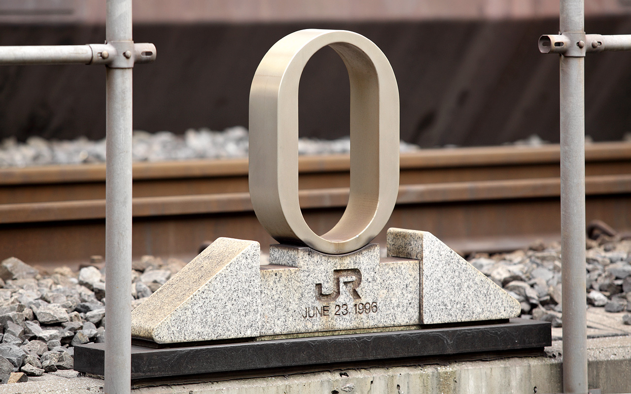 0 km post of Tokyo Station, at No.5 Track.